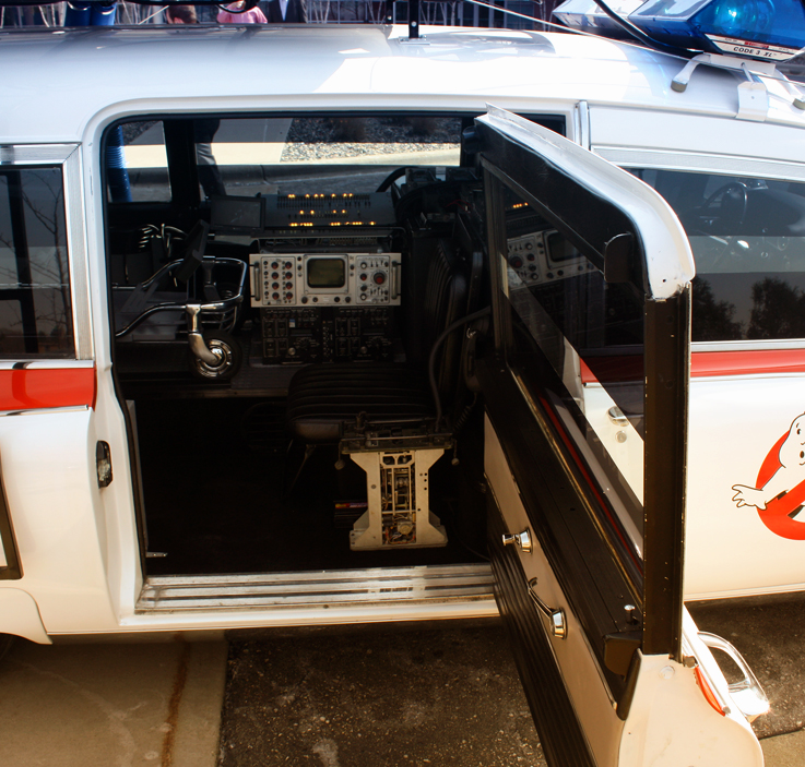 The Ghostbusters ectomobile emergency vehicle.Ghostbusters ECTO-1